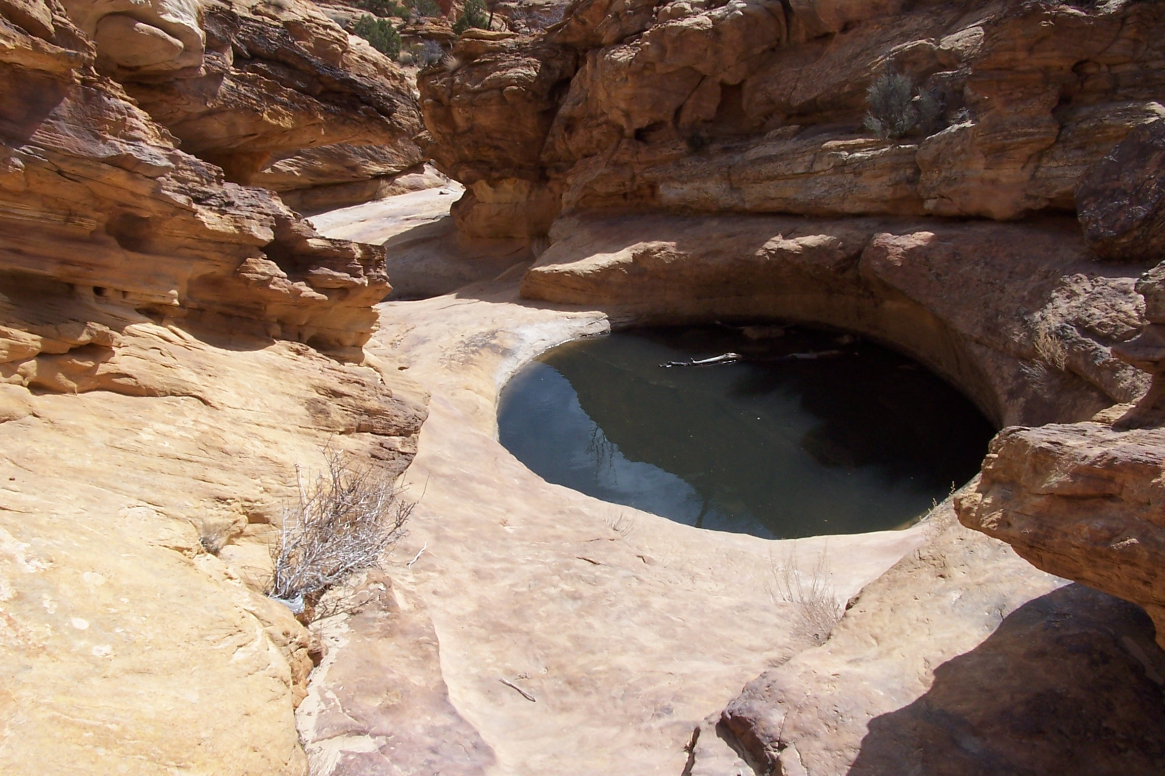 This photo shows a pothole in Capital Reef National Park.